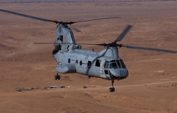 An US Marines CH-46